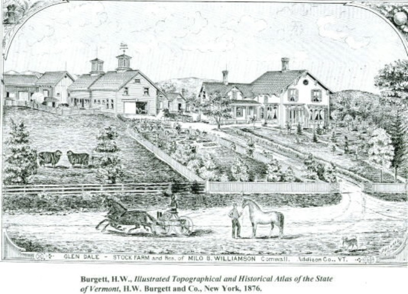 Lithograph